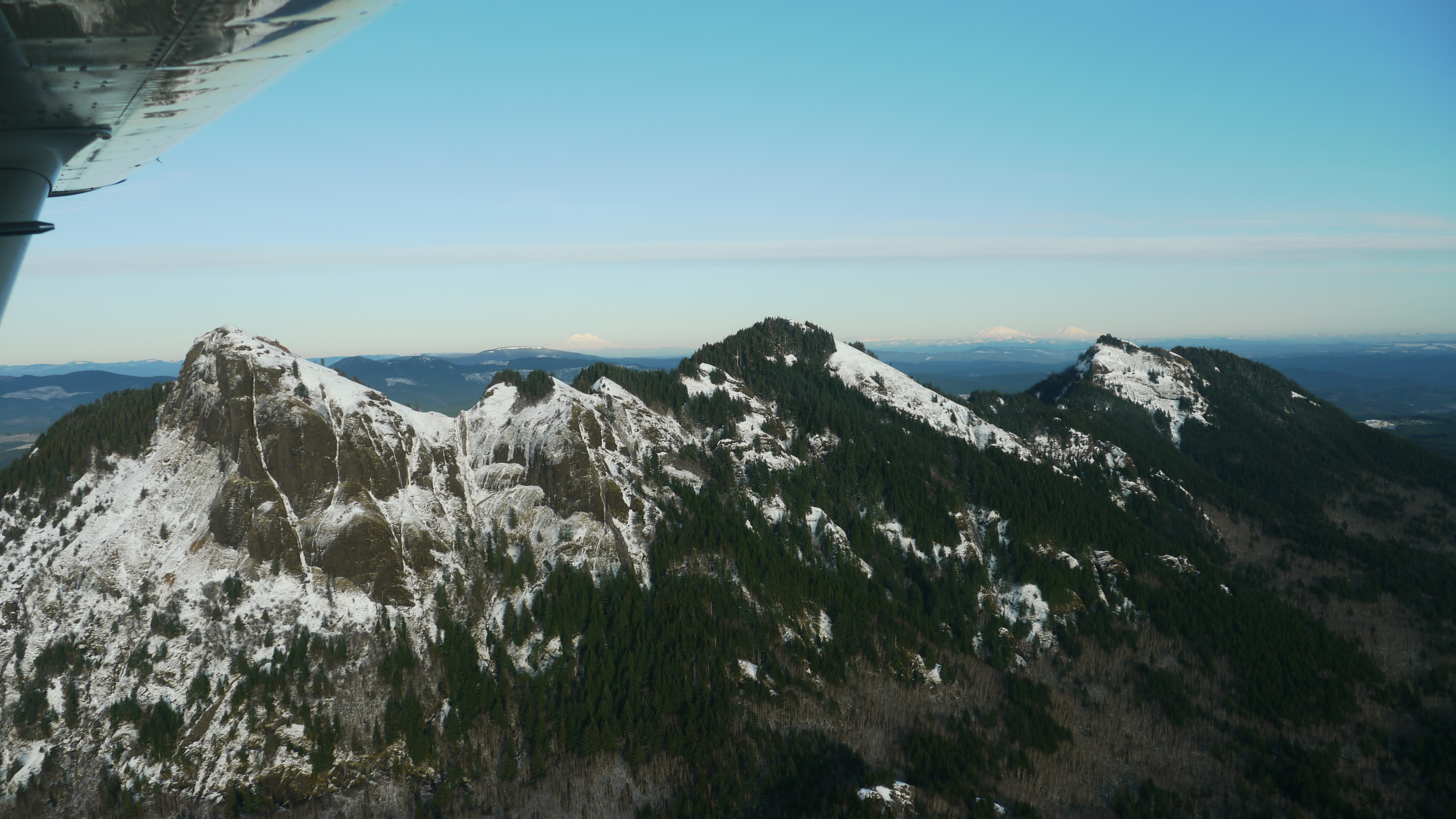 Saddle Mountain in Saddle Mountain State Park, Northwest Oregon; Mount Rainier, Mount St. Helens and Mount Adams (volcanoes, behind, left to right) A photo taken by my brother of Saddle Mountain as I flew back from Astoria to Newberg. Of all the sites I had planned to see along our coast trip, I never knew this mountain existed until we flew past it. We ended up circling for quite some time. It was just magnificent.